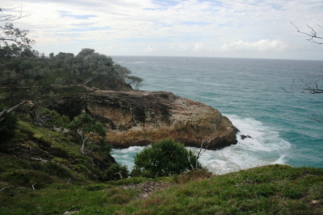 Views from North Stradbroke Island, outside Brisbane, Queensland, Australia.